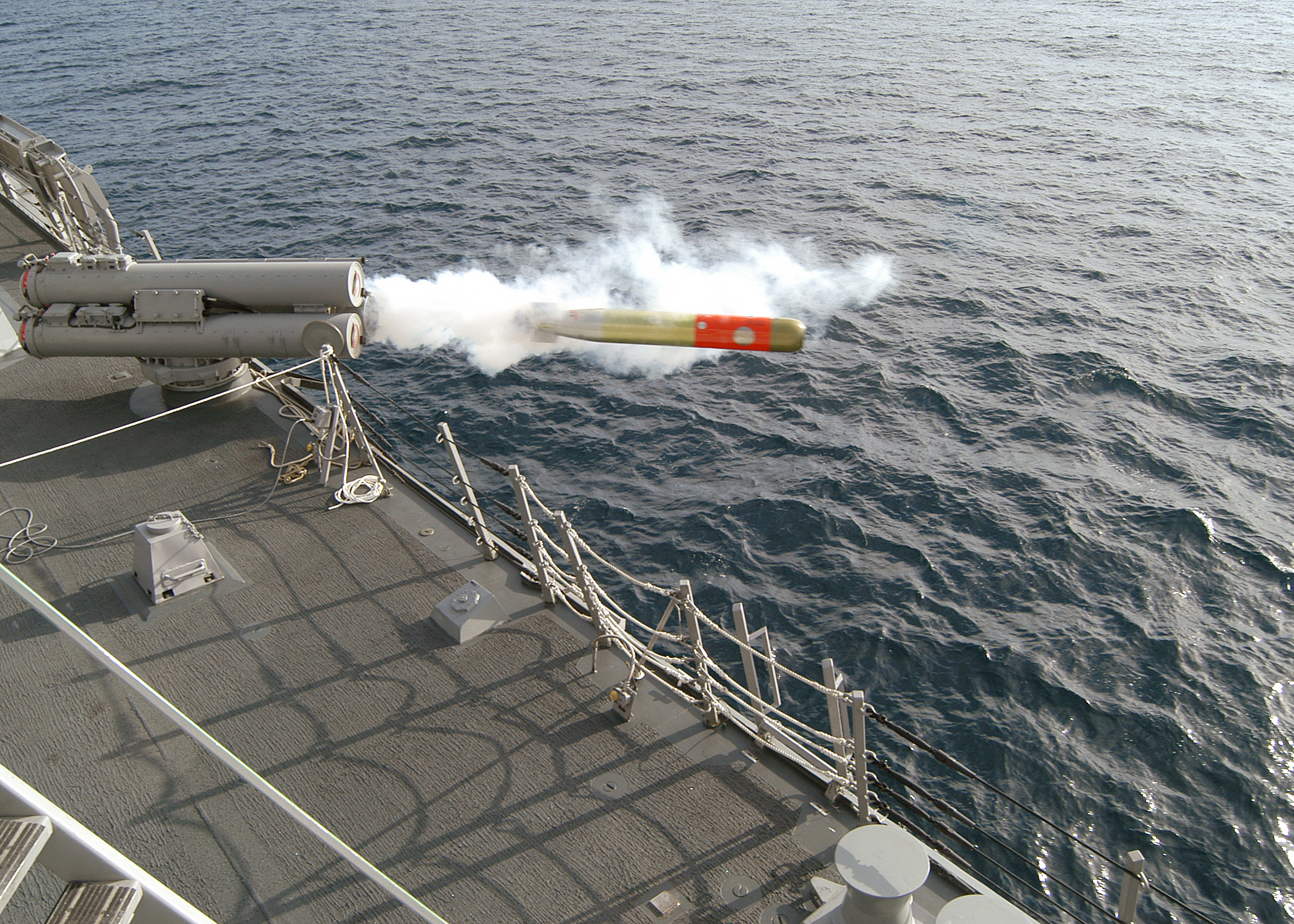 A MK-32 Mod 15 Surface Vessel Torpedo Tube (SVTT) fires a MK-46 Mod 5 lightweight torpedo from the starboard side of the recently commissioned guided missile destroyer USS Preble (DDG 88), during a Combat Systems Ship Qualification Test (CSSQT) in the Pacific Ocean. The MK-46 torpedo is designed to attack high performance submarines, and is considered the backbone of the Navy's Anti-Submarine Warfare (ASW) inventory. USS Preble was commissioned Nov. 9, 2002, and is homeported in San Diego, Calif.